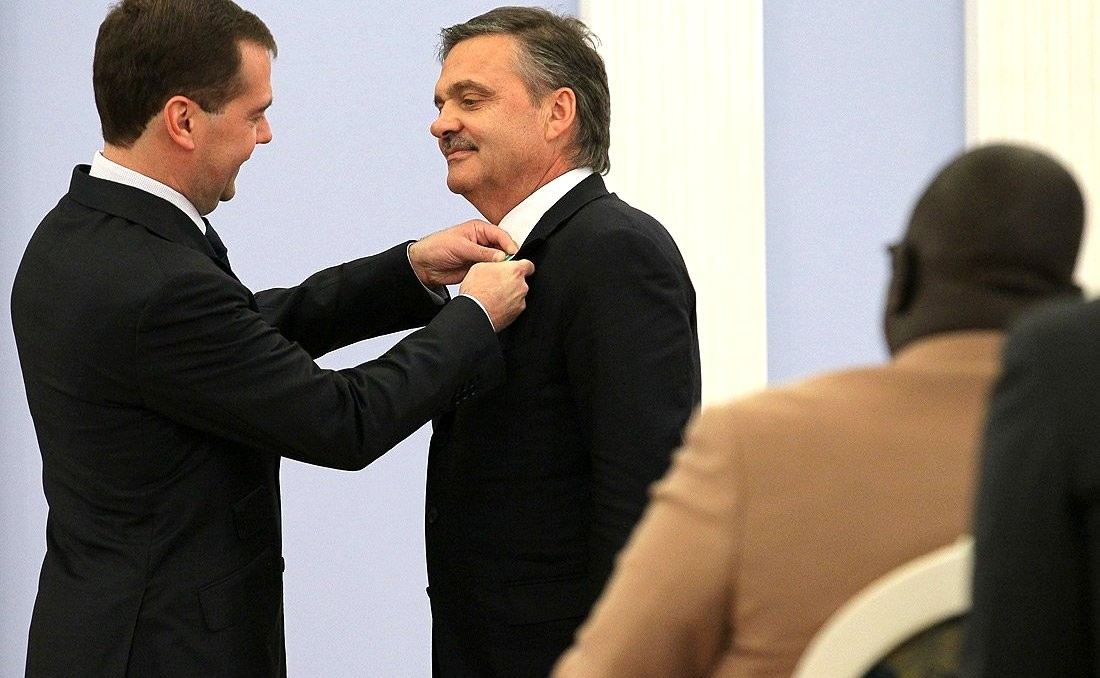 Dmitry Medvedev and René Fasel